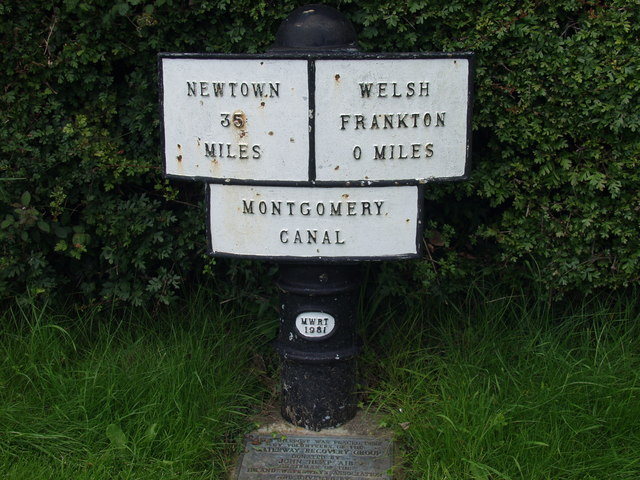 Montgomery Canal 0 mile milepost This is one of the replica mileposts being installed on the Montgomery canal. This is at the point where the canal branches from the Llangollen Branch of the Shropshire Union Canal. This milepost is on the right bank as you travel to Newton so the boater will see how far he has come and not how far he has to travel. Ideally this sign should be on the left of the canal as you travel to Newton.